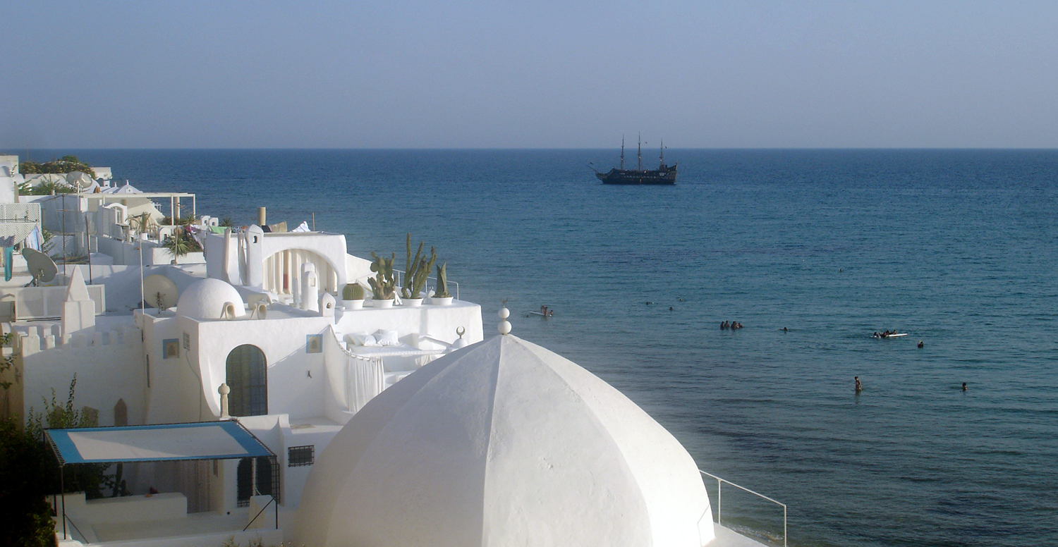 Hammamet (Tunisia)